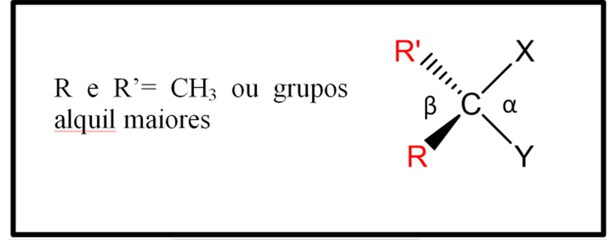 guedes.1